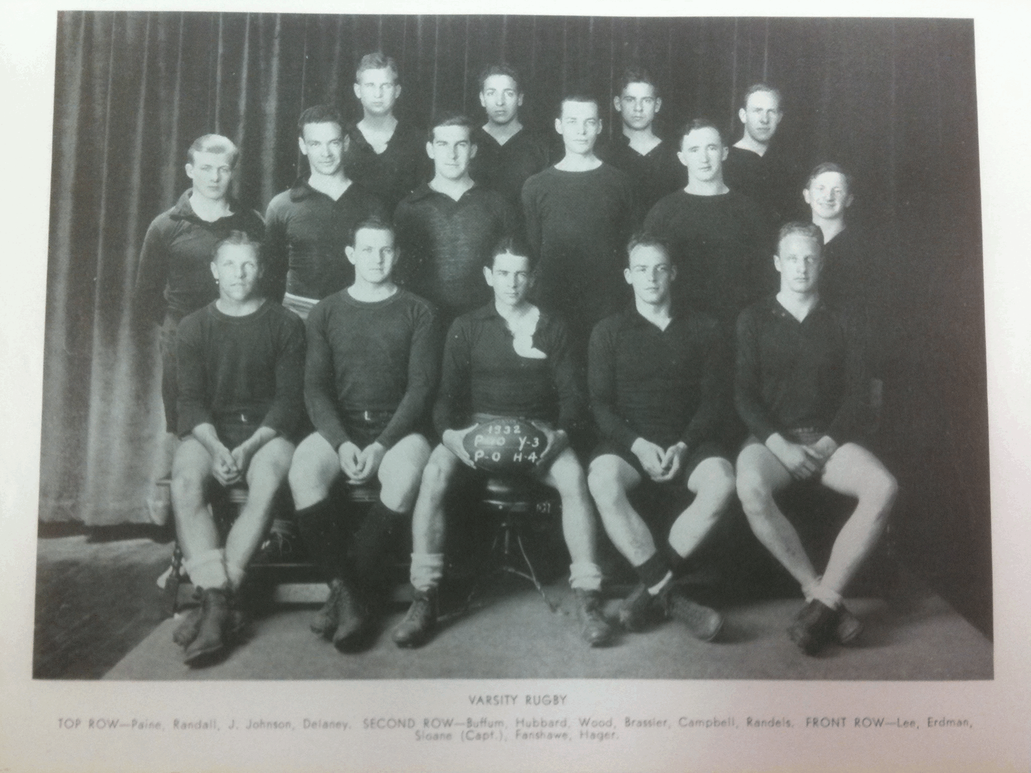 Princeton University rugby football team line up of 1932.